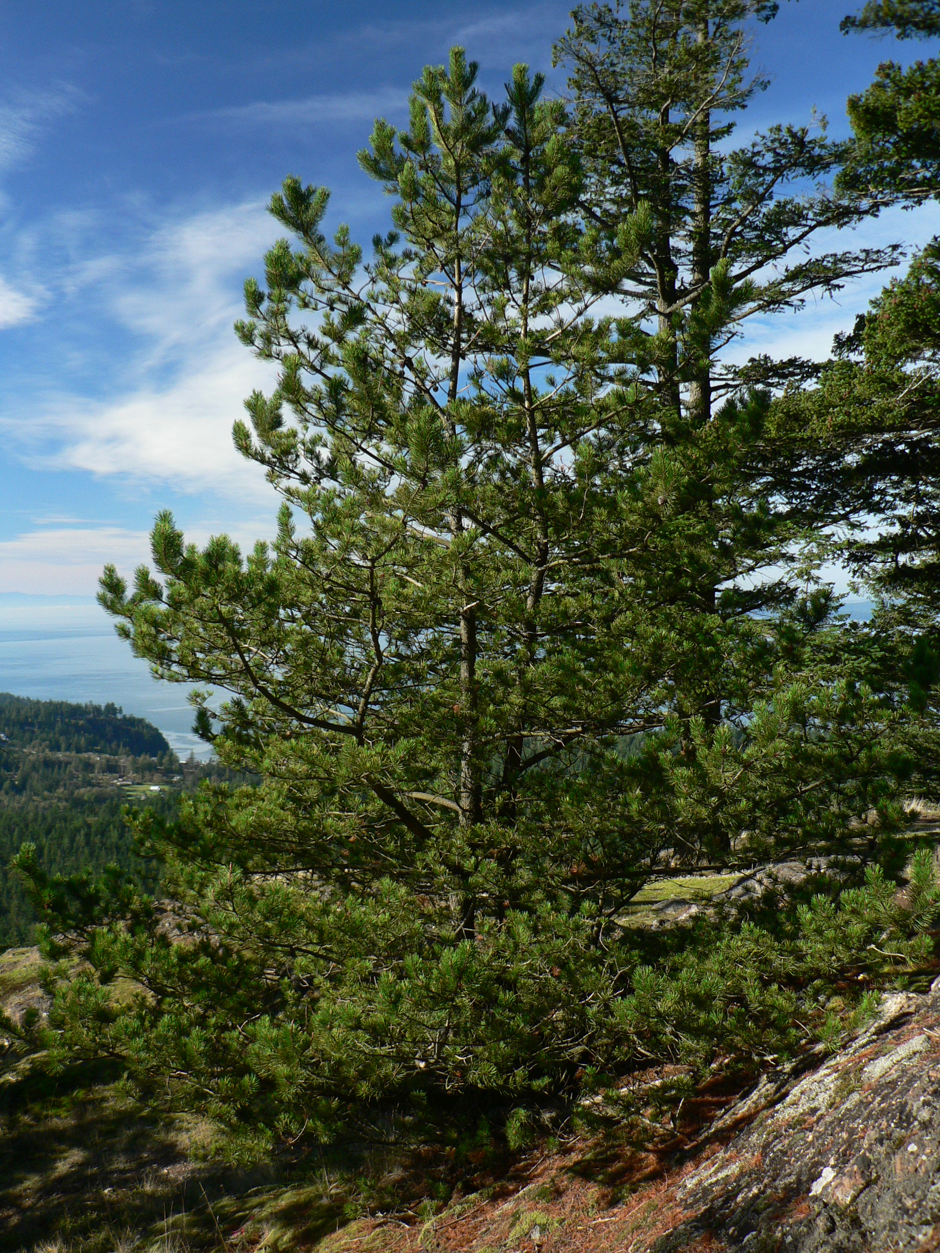 Shore Pine